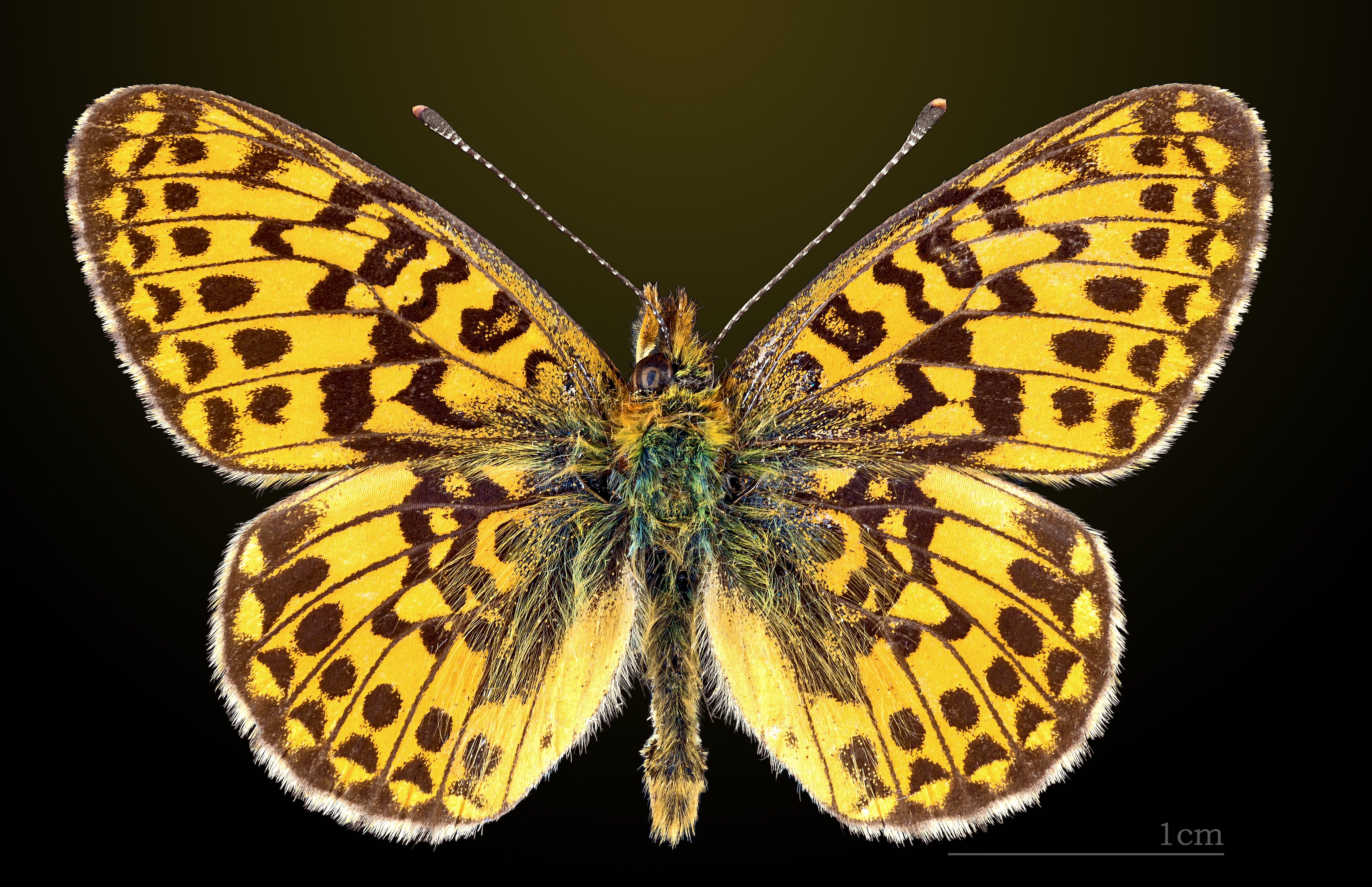 Pearl-bordered fritillary - Dorsal side Locality: Lalbenque, Lot, France